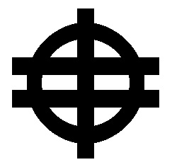 Waki Yamaguchi chapter